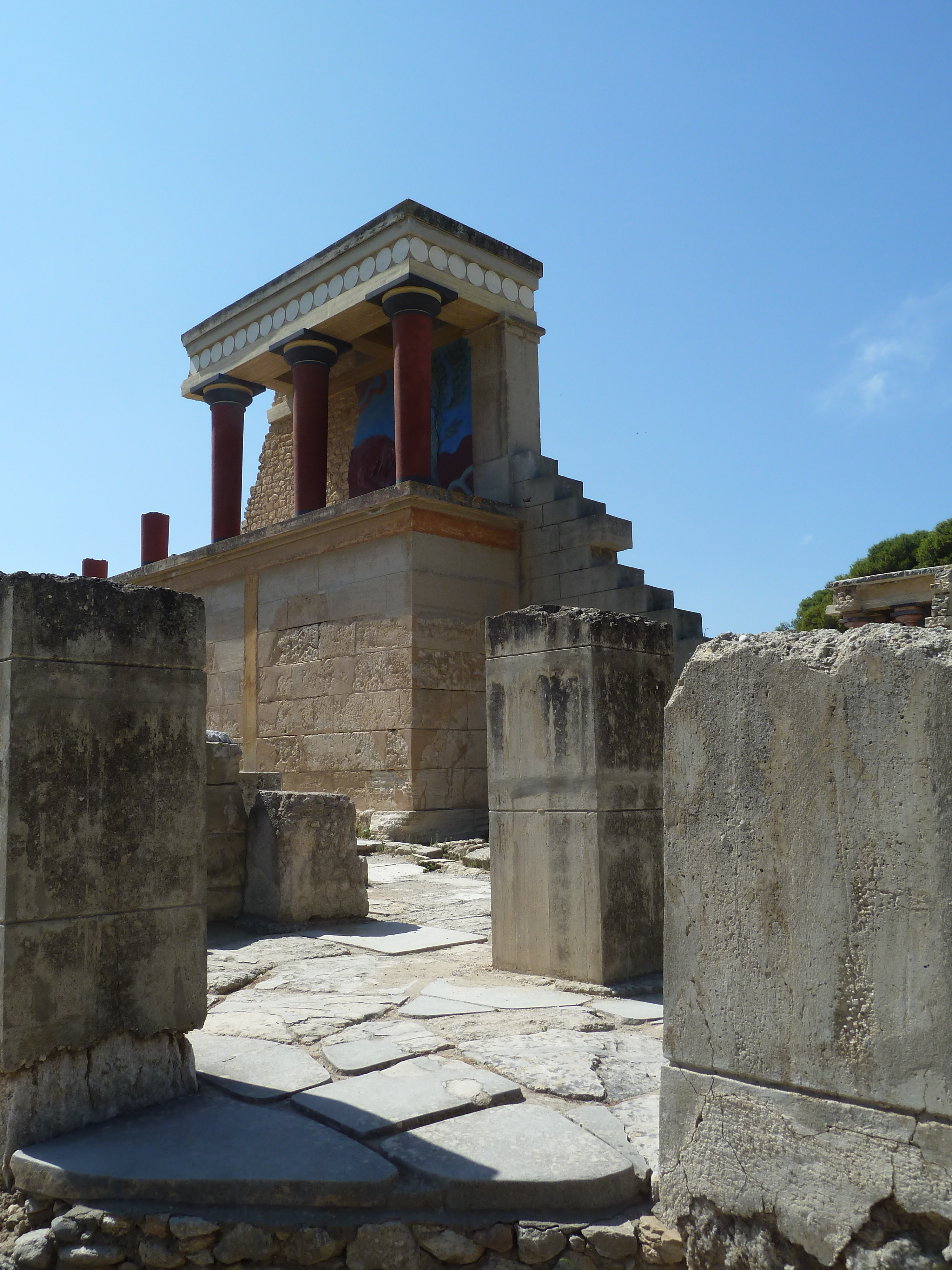 Minoean Pallace, Knossos, Crete, Greece